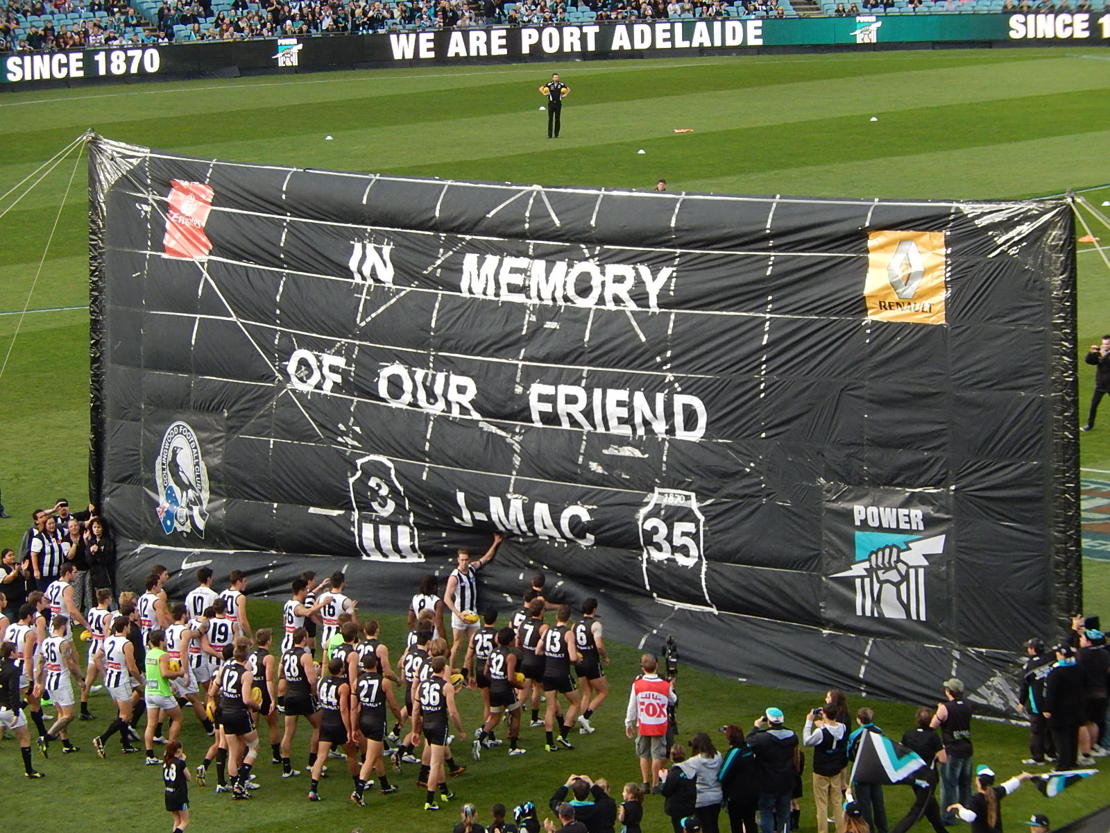 For John McCarthy